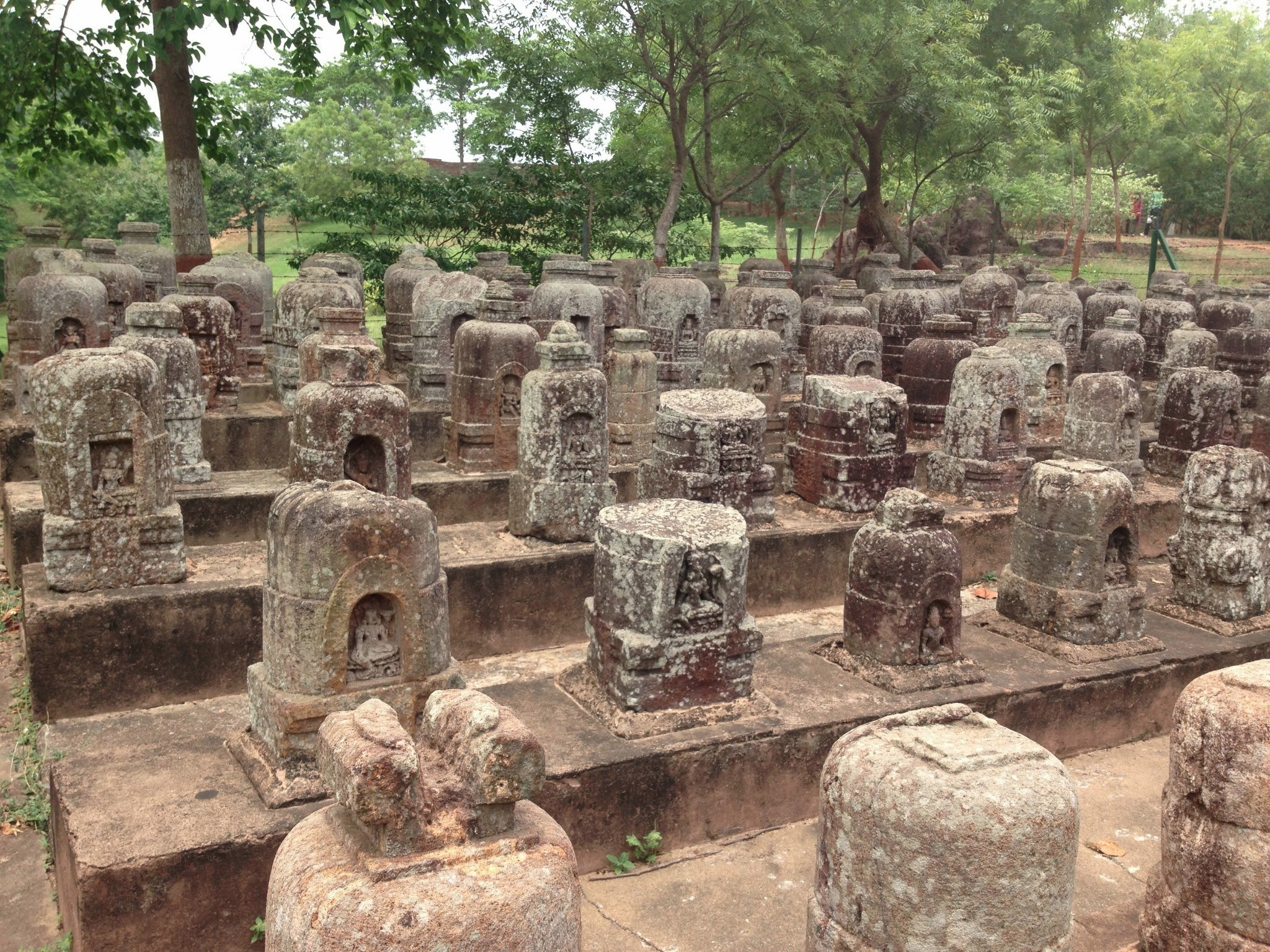 Ancient Budhhist Votive Stupas at Ratnagiri Excavation Site in Orissa, India